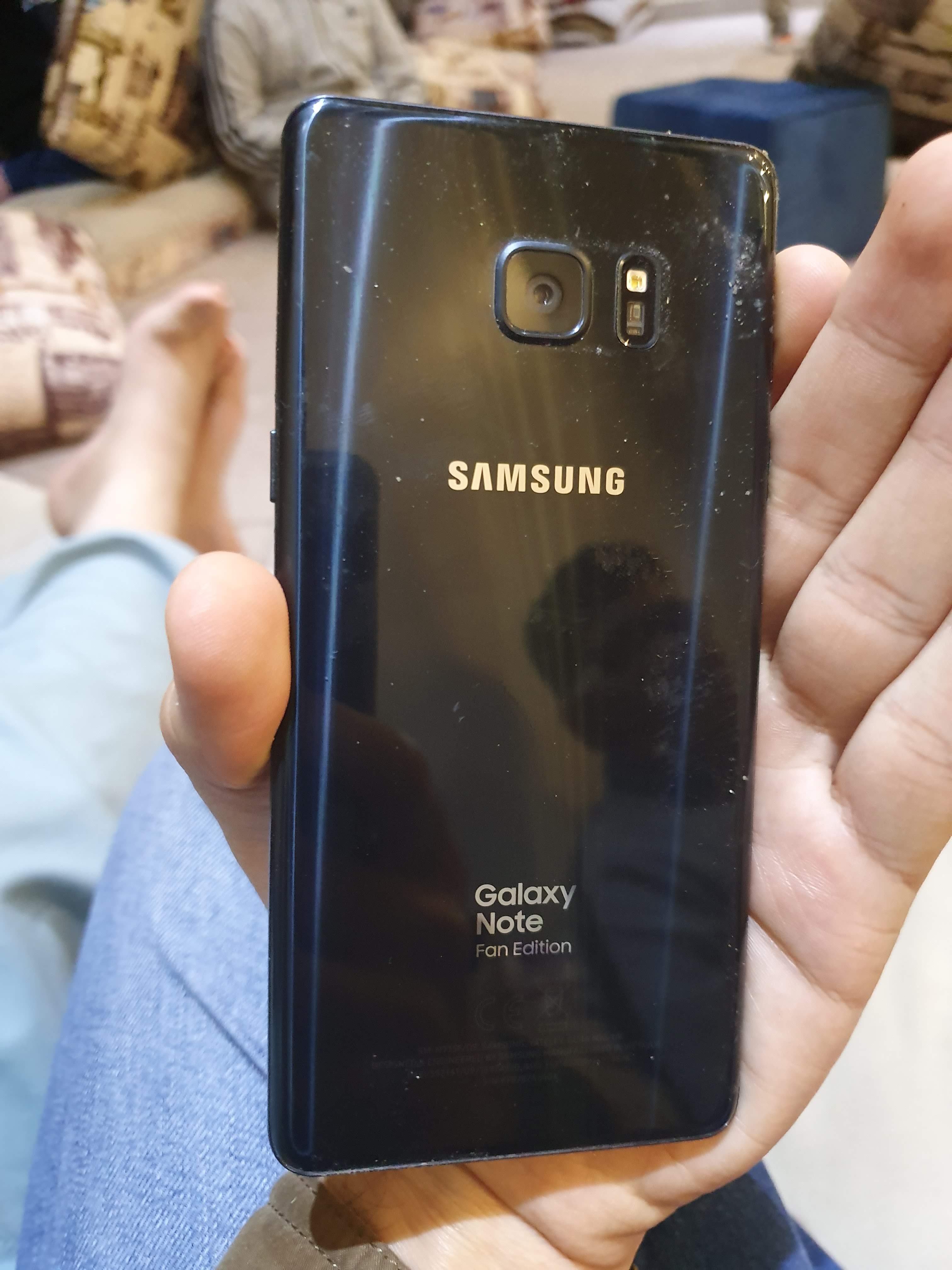 The backside of Samsung Galaxy Note 7 Fan Edition